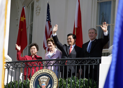 President George W. Bush, Chinese President Hu Jintao, Laura Bush and Hu's wife, Liu Yongqing, wave from the South Portico balcony after the South Lawn Arrival Ceremony at the White House